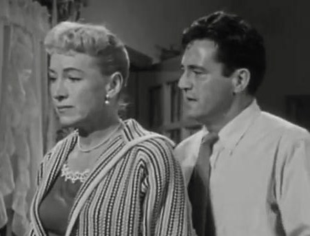 Virginia Gregg and Edward Binns in Portland Exposé (1957) - trailer (cropped screenshot)